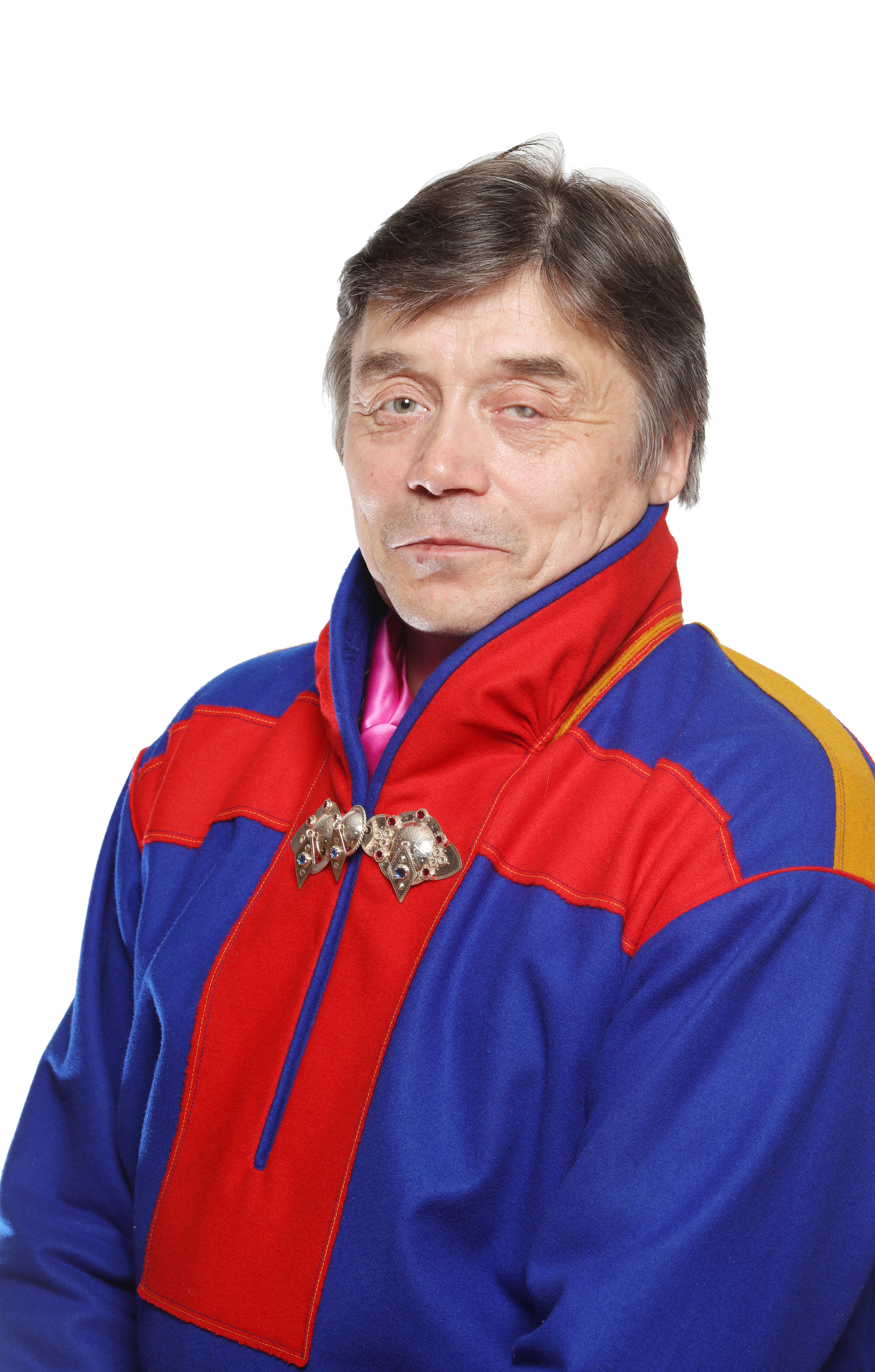 Somby, Anders Jr. (Foto: Kenneth Hætta)